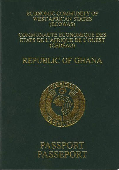 Biometric Passport of Ghana